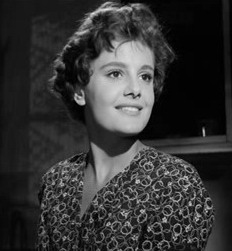 creenshot from the film Le ragazze di San Frediano (1954)